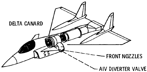 Drawing of "Tandem Fan Applications in Advanced STOVL Fighter Configurations" showing horizontal front lift fan powered by a turbine shaft